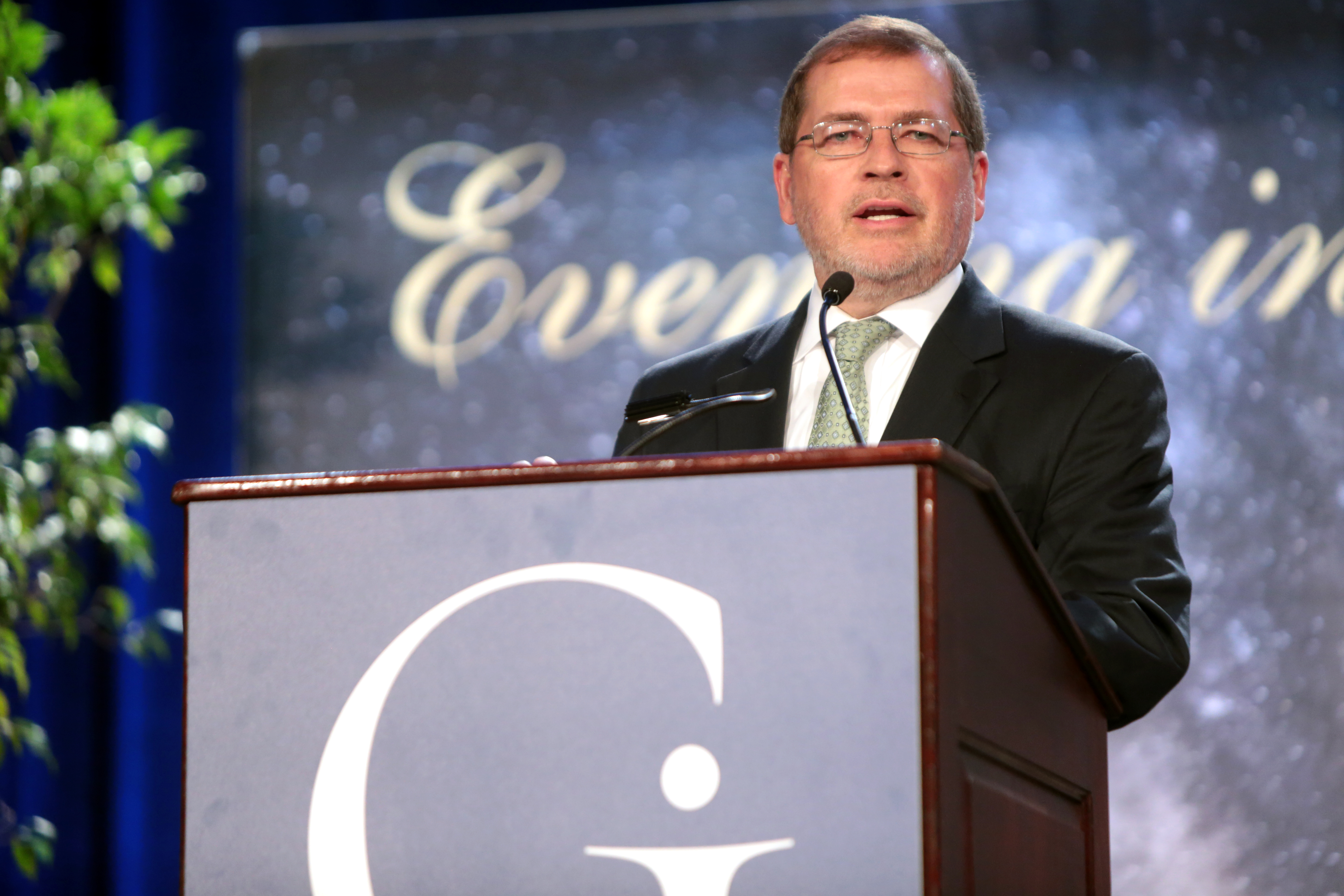 Grover Norquist speaking at the 2016 Goldwater Dinner hosted by the Goldwater Institute at the Arizona Biltmore in Phoenix, Arizona.